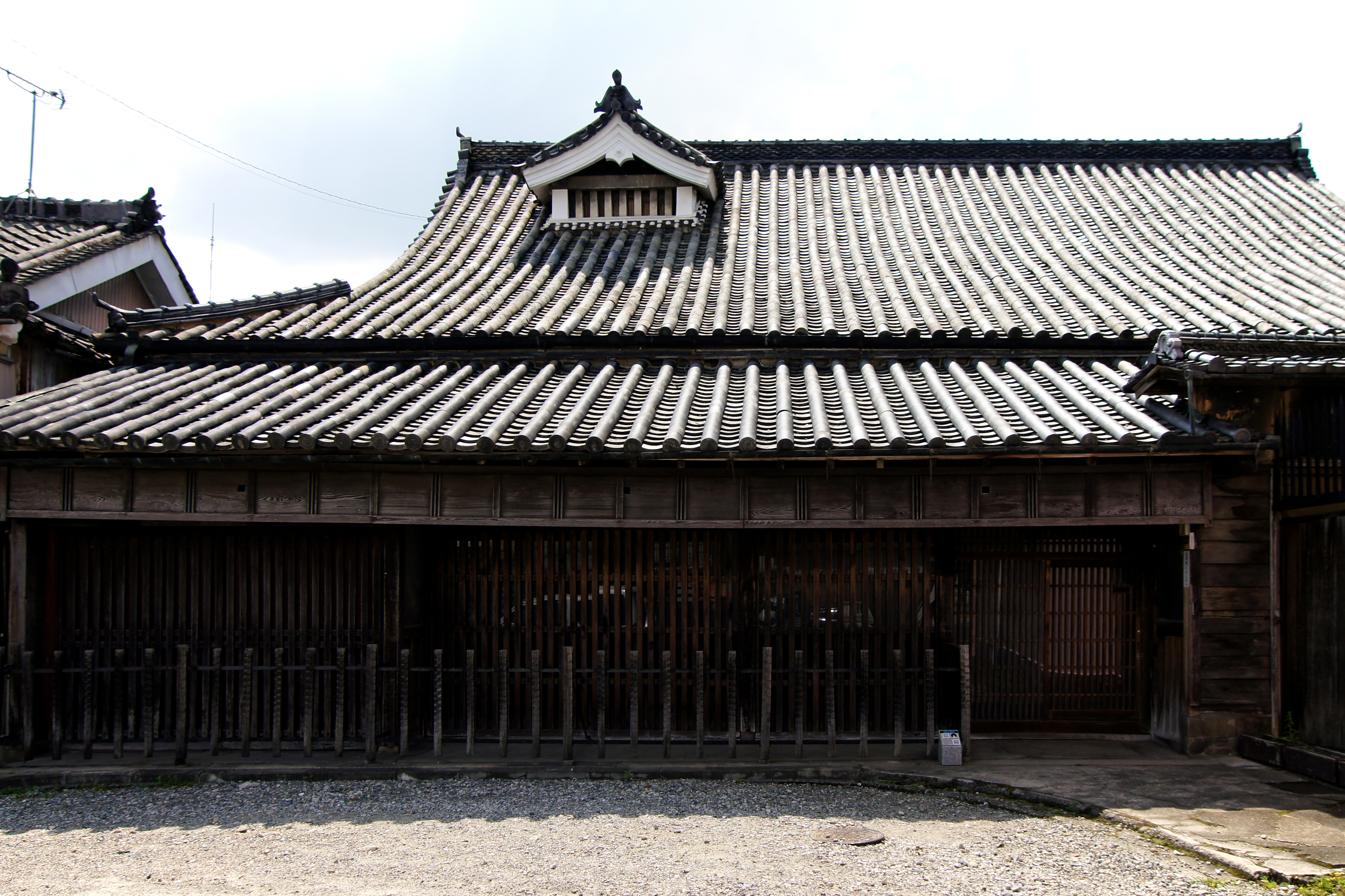 Kuriyama House at Gojo Shinmachi designated as Important Preservation Districts for Groups of Historic Buildings in Japan. It is located in Gojo, Nara prefecture, Japan.